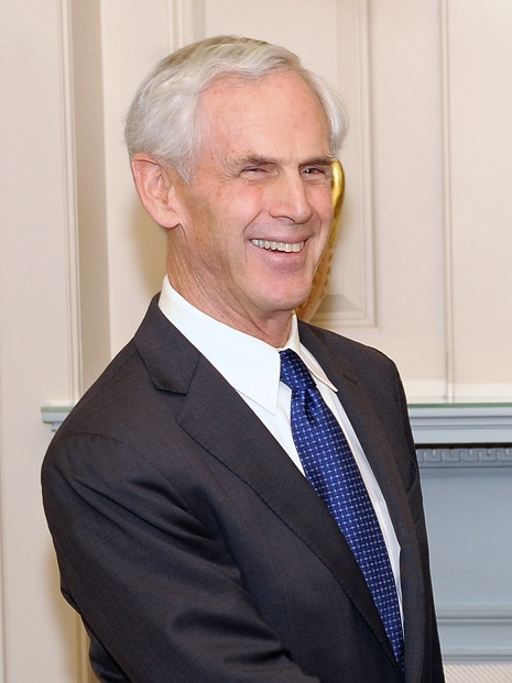 U.S. Secretary of State Hillary Rodham Clinton meets with U.S. Secretary of Commerce John Bryson at the U.S. Department of State in Washington, D.C., on October 31, 2011.